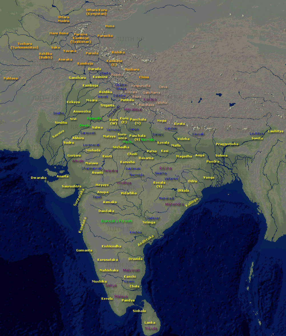 This image shows the locations of Kingdoms mentioned in the Indian epics. Focus is on Mahabharata. The names mentioned in Ramayana also is included. The locations of the kingdoms are based on the current knowledge about their locations. Yellow coloured names are the names of the kingdoms. Orange colored names are kingdoms outside ancient India, but which are mentioned in the epics. Their locations are highly speculative. Pink coloured names are the territories of the exotic tribes. They have spread to many other places. By Rakshasa Kigdom, what is meant is the territory of Ghatotkacha. Asura Kingdom is the kingdom of Vrishaparvan, an Asura royal sage. The river names are shown in blue, the mountains in purple and forests in green as a background for the locations of the kingdoms. Most of these natural boundaries serve as the boundaries of these kingdoms.